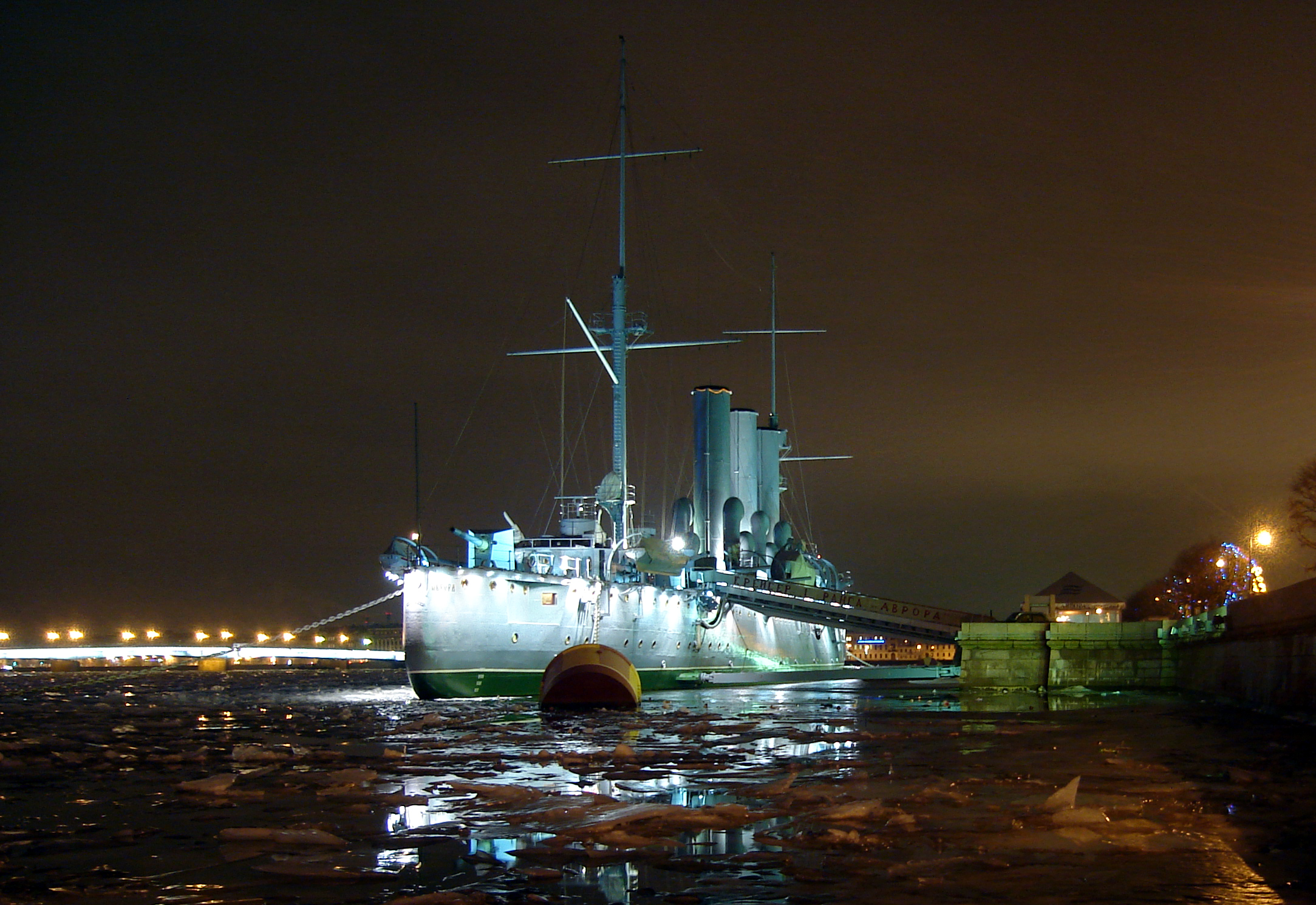 Aurora cruiser by night - December 2007